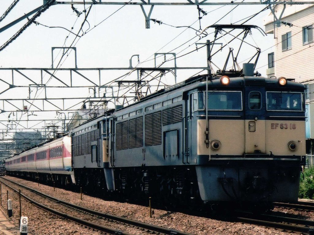 East Japan Railway Company EF63 electric locomotives with West Japan Railway Company 489 series EMU for the limited express Hakusan, on Shin'etsu Main Line between Yokokawa and Karuizawa